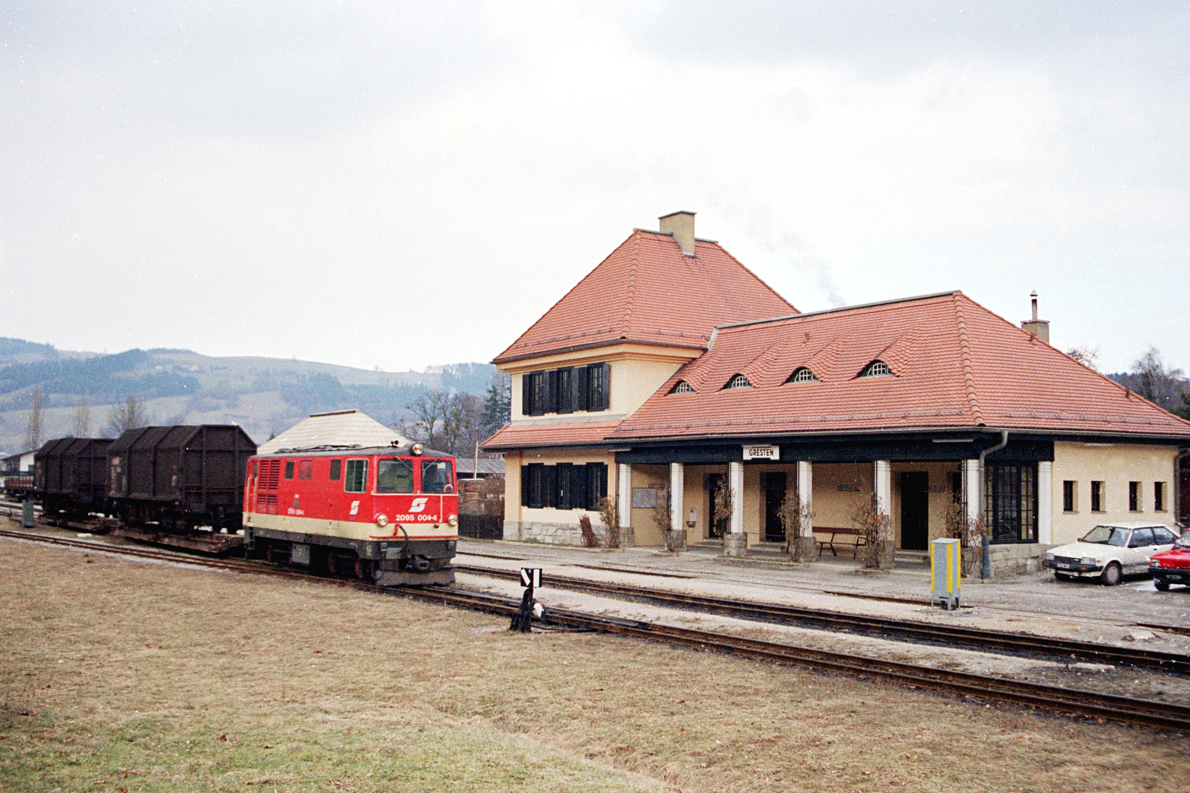 ÖBB 2095 004-4 with a train of standard gauge freight cars on transporter trucks in Gresten, terminus of the then narrow gauge branch line from Wieselburg an der Erlauf.